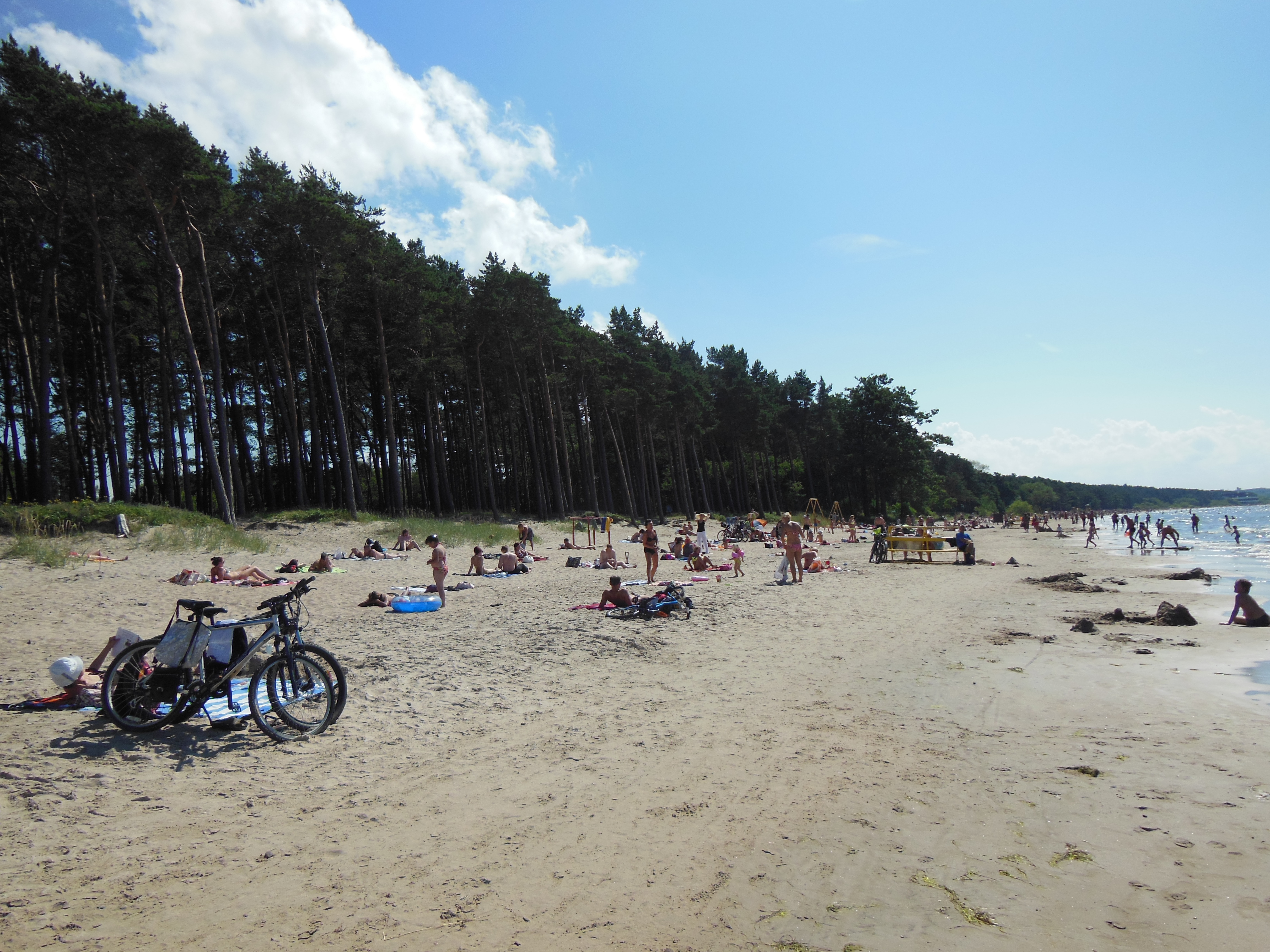 Pirita beach in Tallinn, Estonia.